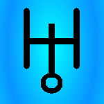 Astrological simbol of uranus. Own work